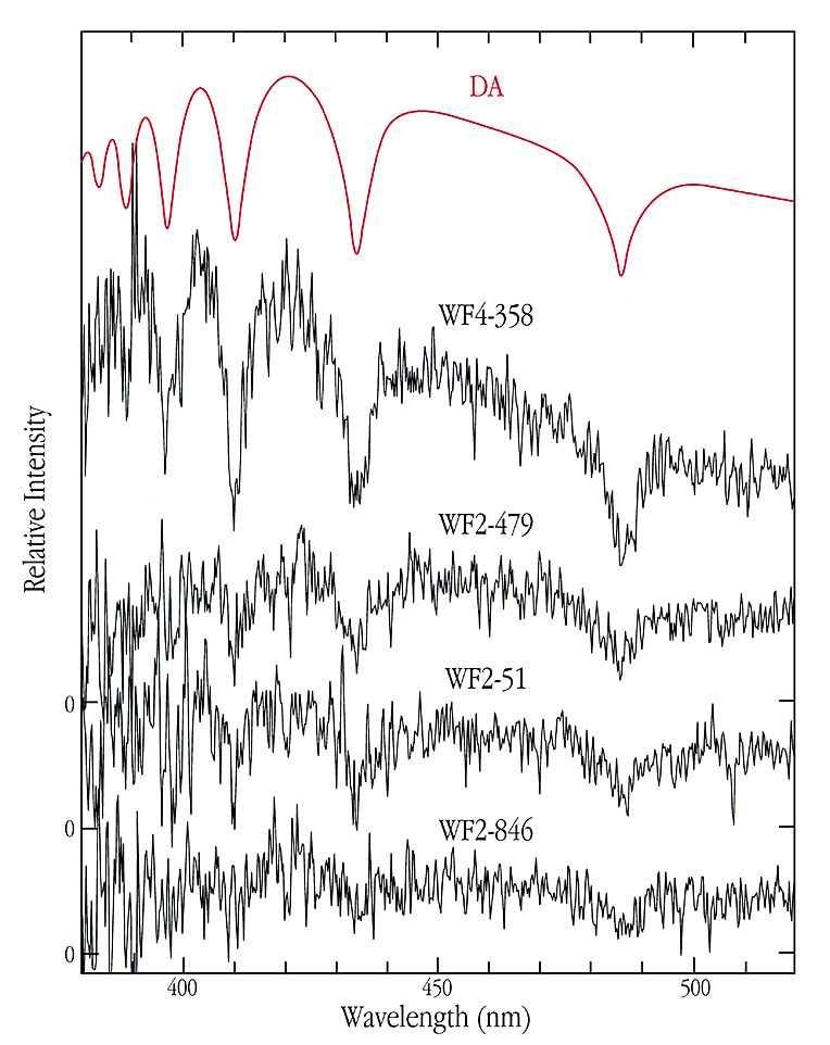 This chart displays the spectra of four white dwarf stars in globular cluster NGC 6397, obtained with ANTU/FORS1 and identified as such from these data. The spectra were shifted vertically so that they do not overlap. The wavelength is indicated along the abscissa; the intensity along the ordinate. A "standard" spectrum of a white dwarf star (of spectral type DA — the hydrogen-rich variety) is shown at the top for comparison. Broad absorption lines from hydrogen atoms in the atmosphere are visible. Although the signal-to-noise ratio is quite small, especially for the lower spectra of the fainter stars, they all show the same strong, broad absorption lines as the comparison spectrum. This permits to classify them unambiguously as WD stars. Individual differences, for instance of the widths of the absorption lines, are clearly present and point to different surface gravity and masses.